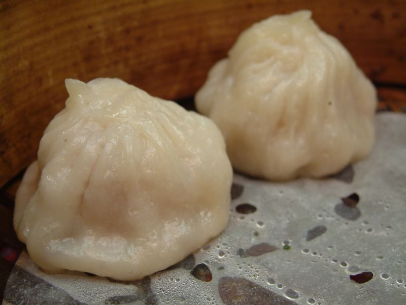 yum! Bite into the tender dumpling wrapper and be careful of the delicious hot soup that squirts into your mouth! The way a xiao long bao 小笼包 should be!